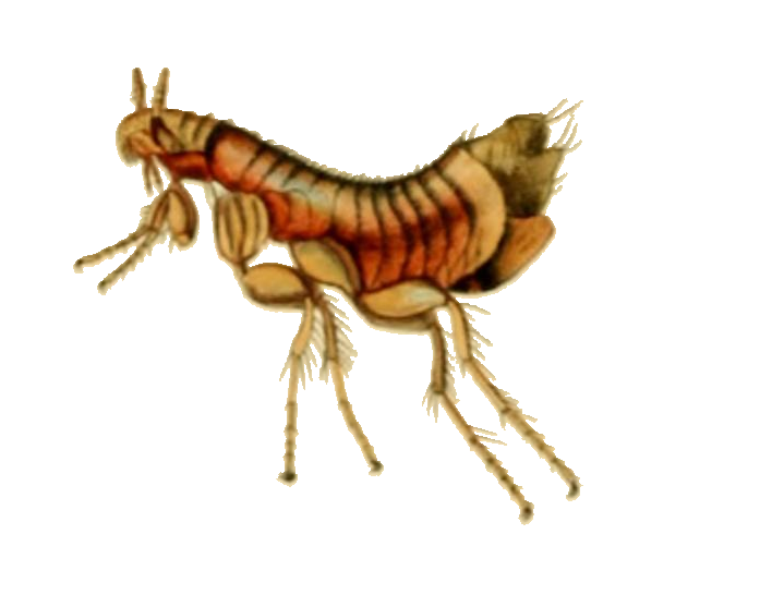 Ceratophyllus elongatus Synonym of Ischnopsyllus elongatus Valid name the Yellow Bat’s Flea